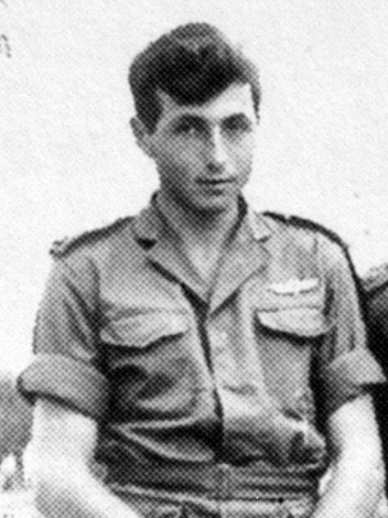 Meir Har-Zion 1955